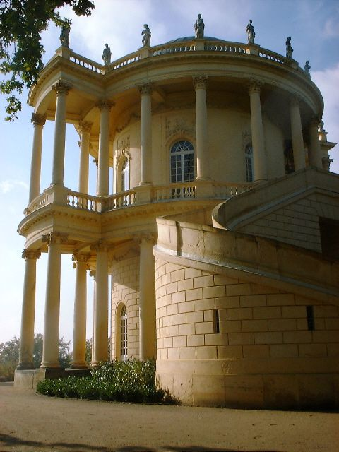 The Belvedere on the Klausberg, Potsdam, as seen from the northeast.